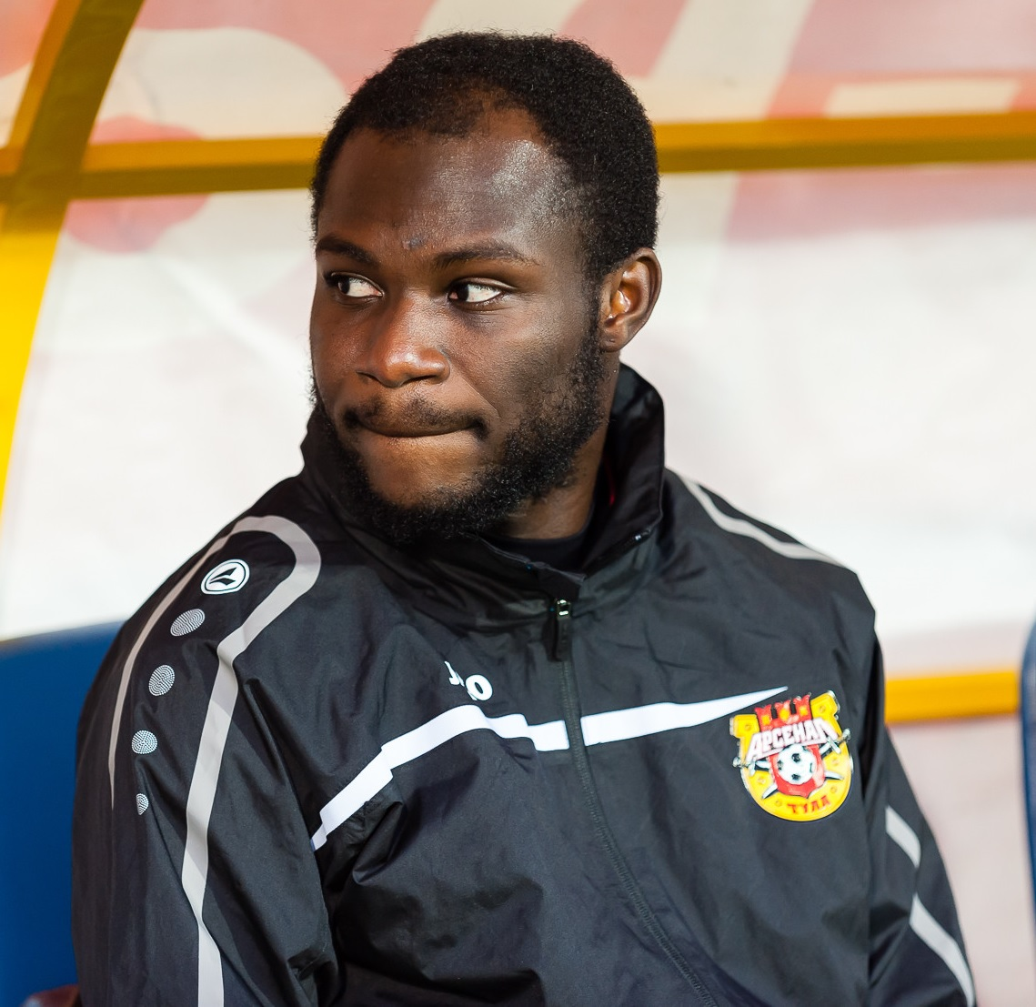 Emmanuel Frimpong on the bench for FC Arsenal Tula in a game against FC Rostov.